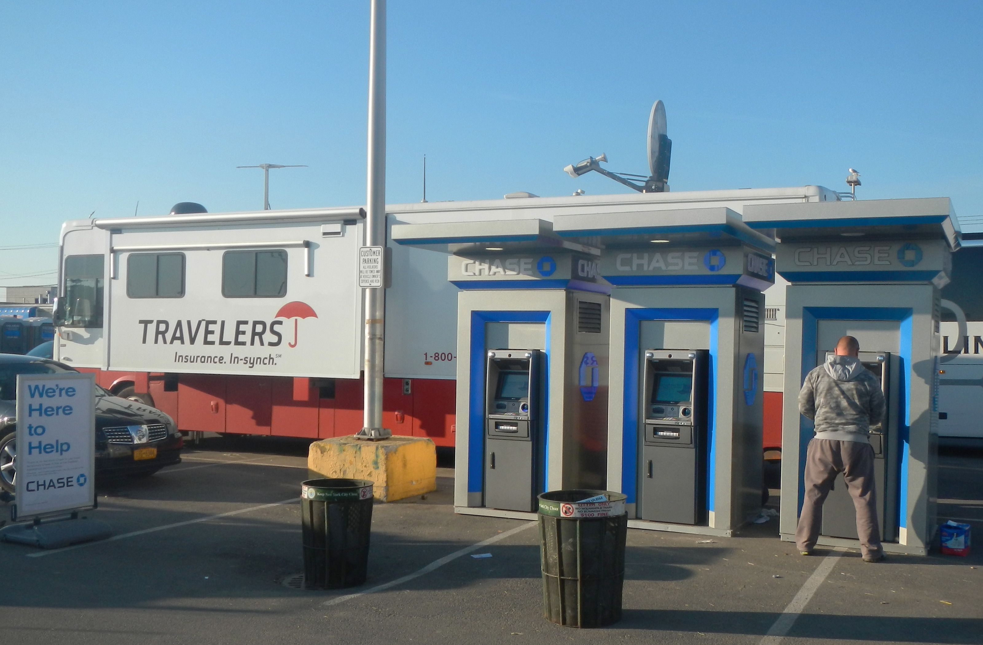 Looking northwest at bank kiosk and insurance van serving a stricken area on a sunny early afternoon.